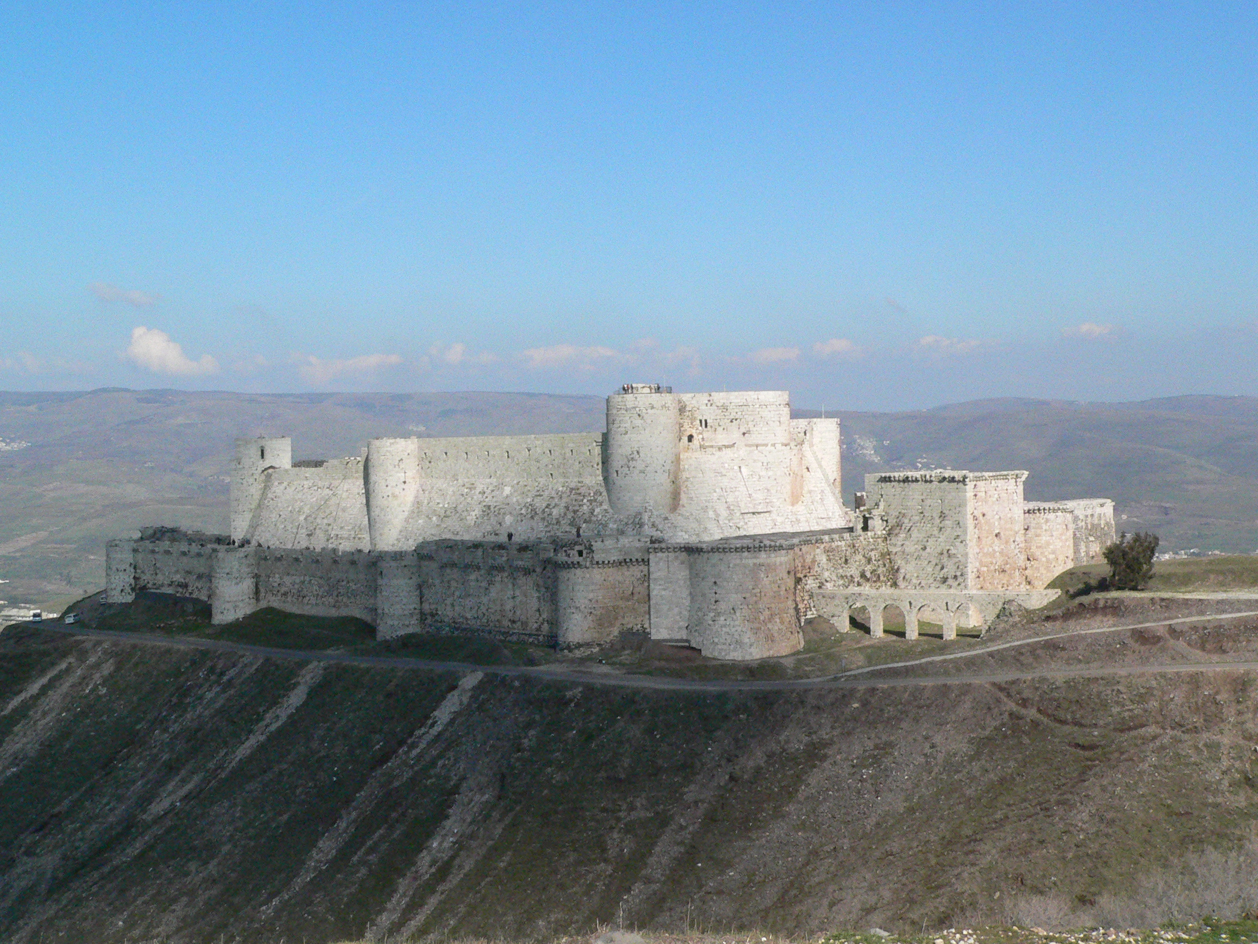 Taken from the restaurant above ;) mardi 22 février 2005, 13:50:20 M. Disdero